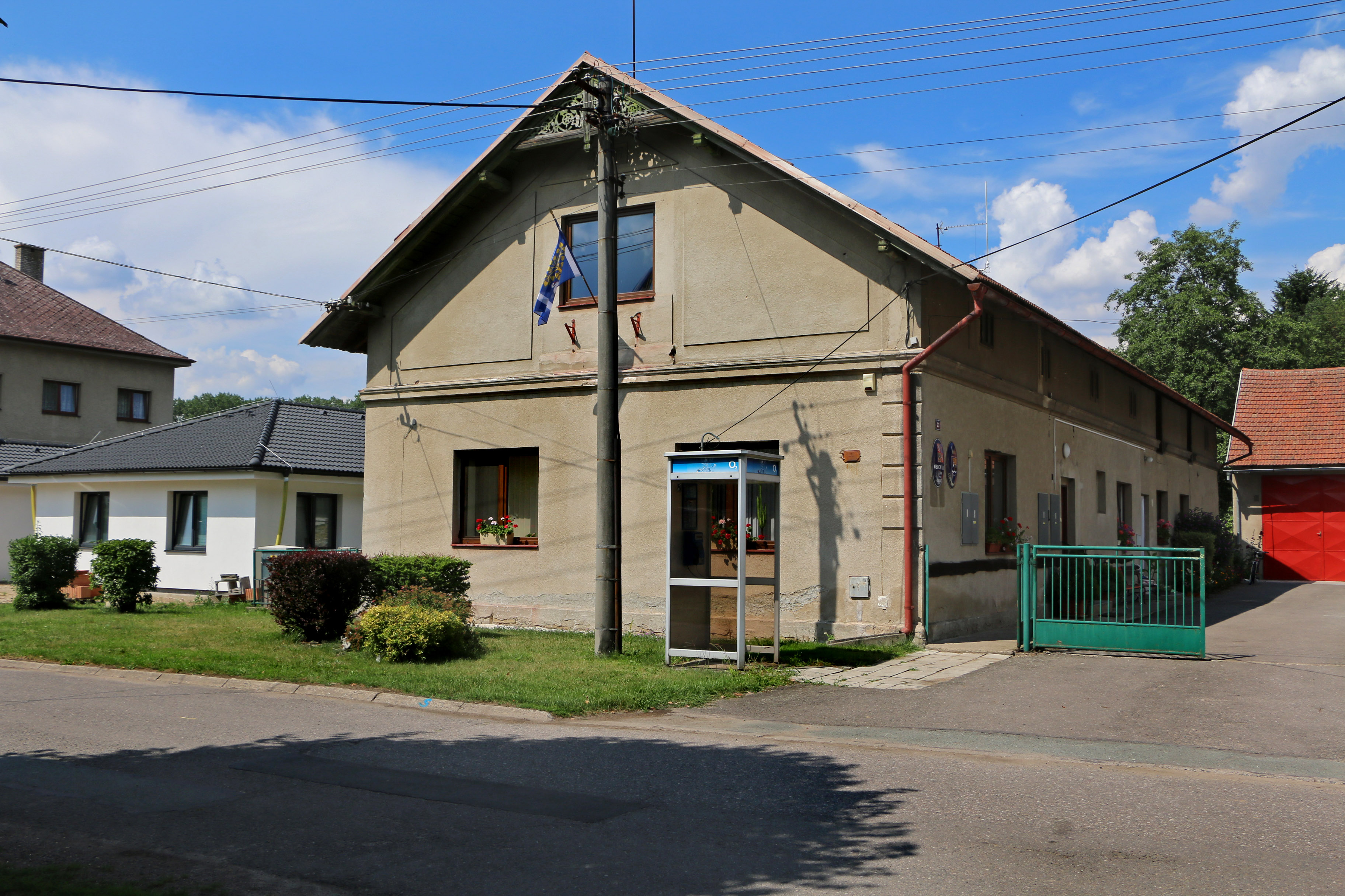 Municipal office in Lípa nad Orlicí, Czech Republic.